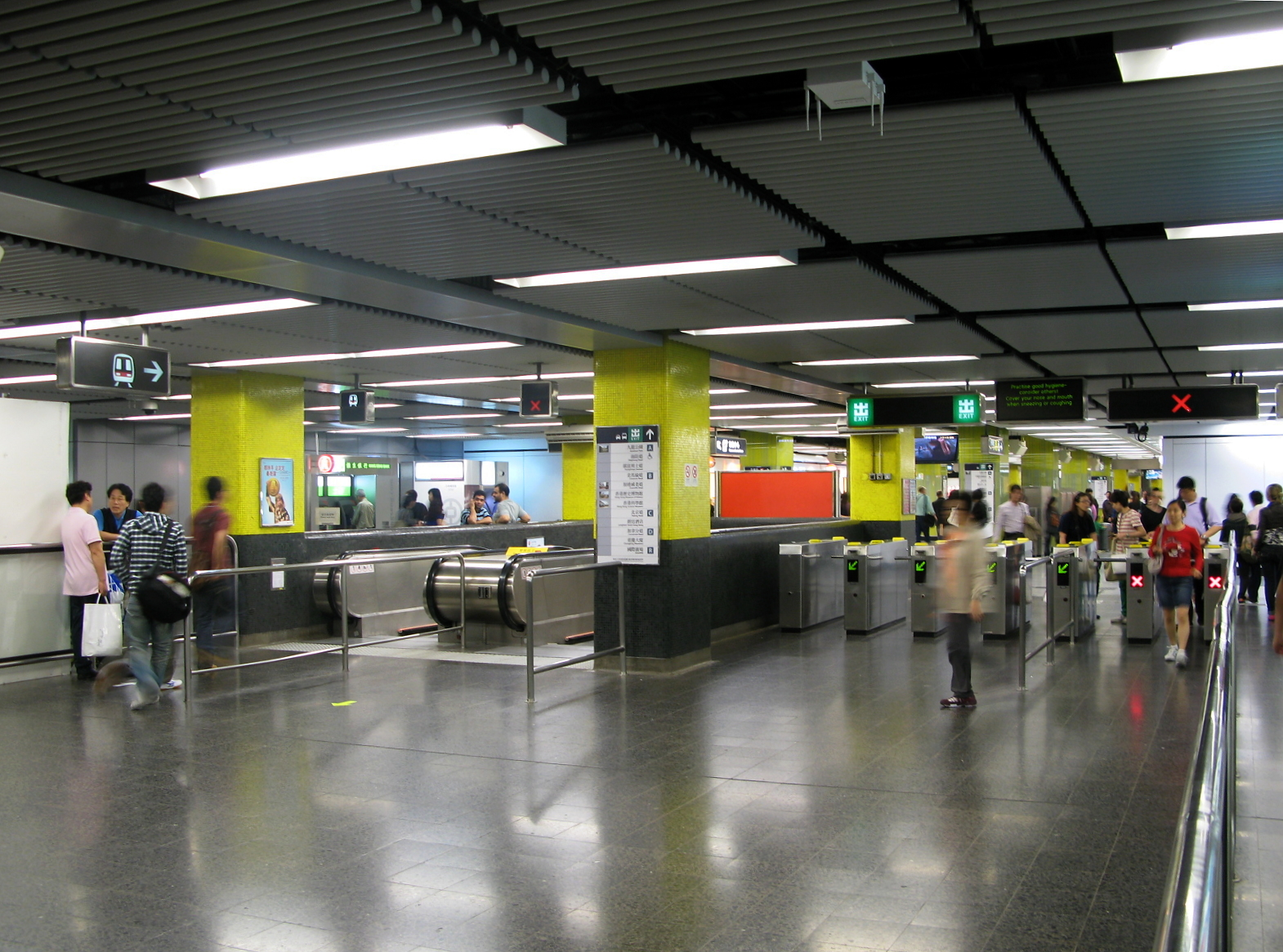 Tsim Sha Tsui Station Concourse 尖沙咀站大堂